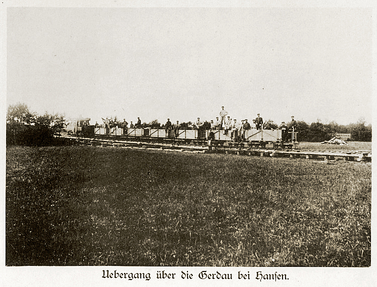 Title: Uebergang ueber die Gerdau bei Hansen Alternative Title: Crossing of the Gerdau River at Hansen Creator: Unknown Date: 1892 Part Of: Physical Description: 1 photographic print: collotype; 25 x 35 cm. File: ag2002_1457_29_sm_opt.jpg Rights: Please cite DeGolyer Library, Southern Methodist University when using this file. A high-resolution version of this file may be obtained for a fee. For details see the web page. For other information, . For more information, View the